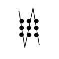 9 dots puzzle solved